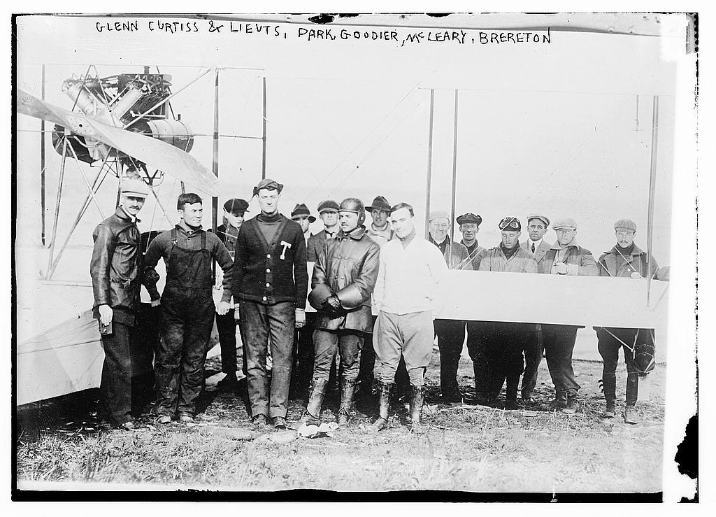 Glenn Curtiss and Lieutenants Joseph D. Park; Lewis Edward Goodier; Samuel H. McLeary; Lewis Hyde Brereton on December 4, 1912 Bain News Service,, publisher. Glenn Curtiss; Lieuts; Park; Goodier; McLeary; Brereton, 12/4/12 12/4/1912 (date created or published later by Bain) 1 negative : glass ; 5 x 7 in. or smaller. Notes: Title from unverified data provided by the Bain News Service on the negatives or caption cards. Forms part of: George Grantham Bain Collection (Library of Congress). Subjects: Air pilots Format: Glass negatives. Repository: Library of Congress, Prints and Photographs Division, Washington, D.C. 20540 USA, General information about the Bain Collection is available at Persistent URL: Call Number: LC-B2- 2463-9